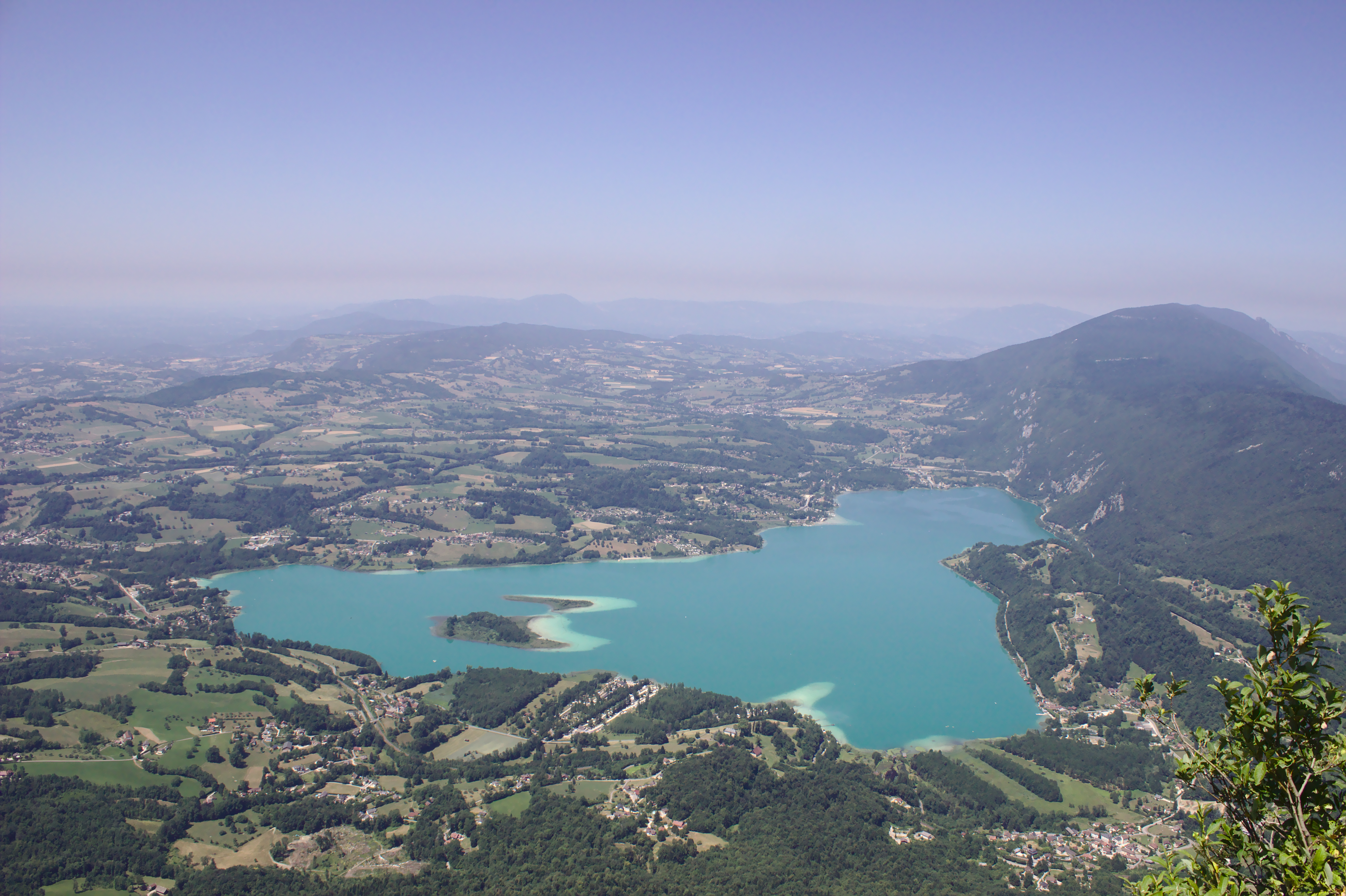 Aiguebelette Lake from the Mont Grèle (France)